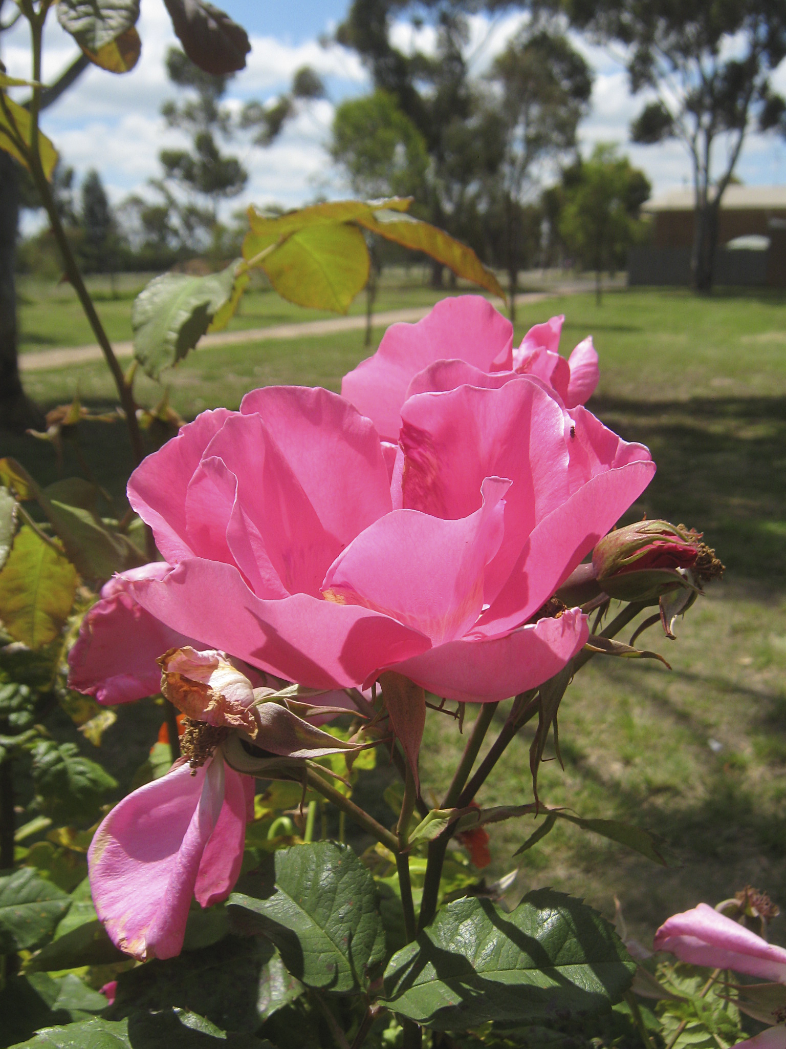 Rose 'Cicely O'Rorke' Hybrid Tea climber by Alister Clark 1937, Photographed at the Alister Clark Memorial Rose Garden, Bulla, Victoria